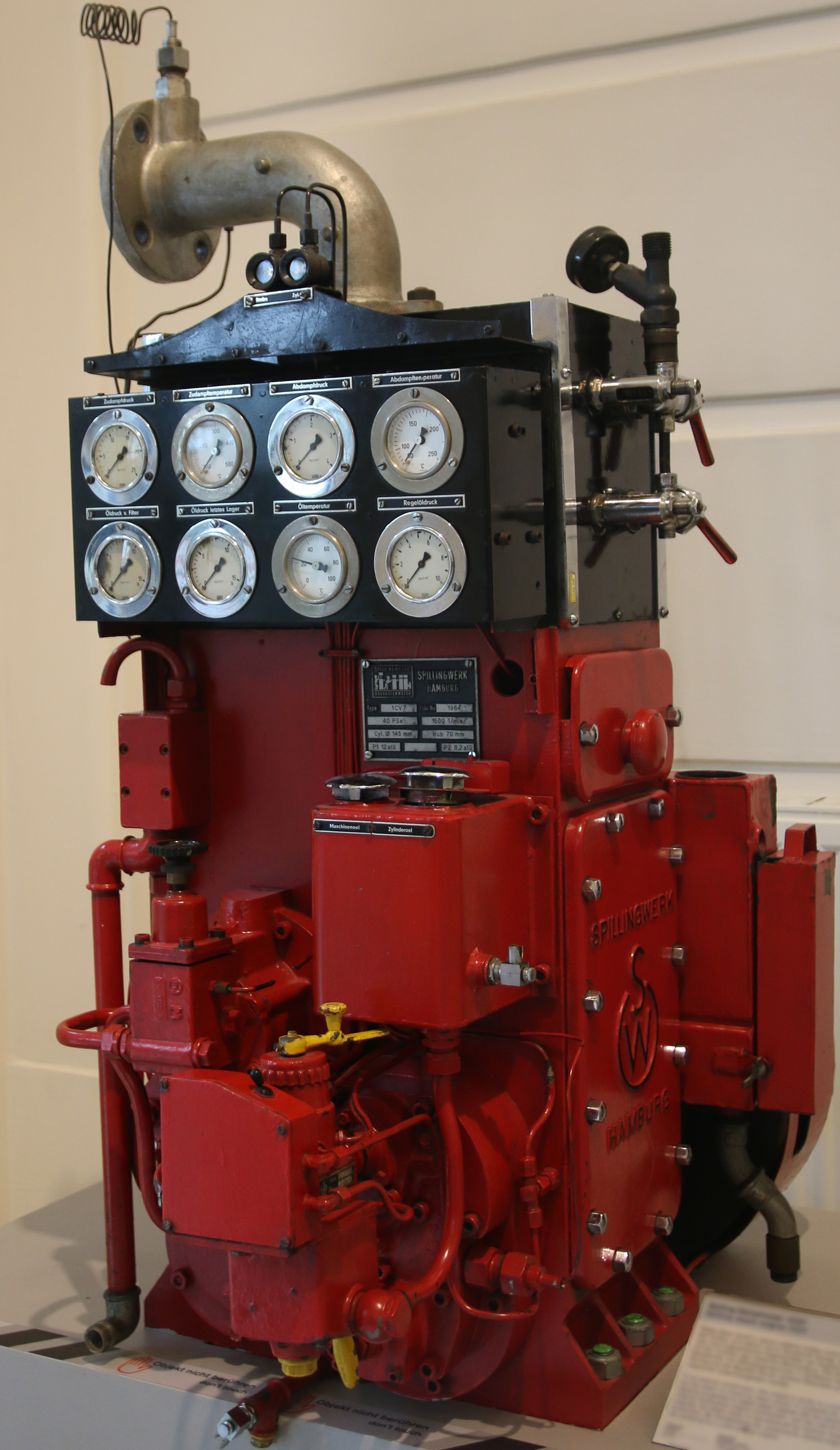 Steam motor made by the Spillingwerk, Type 1CV7 Year of manufacturing: 1964 Rated power: 29,420 W (40 PSe) at 1500 min−1 Bore / Stroke: 145 mm / 70 mm Inlet pressure: 1,274.8645 kPa (12 atü) Residual vapour pressure: 117.6798 kPa (0.2 atü) It is not permitted to use this file in the English language Wikipedia.